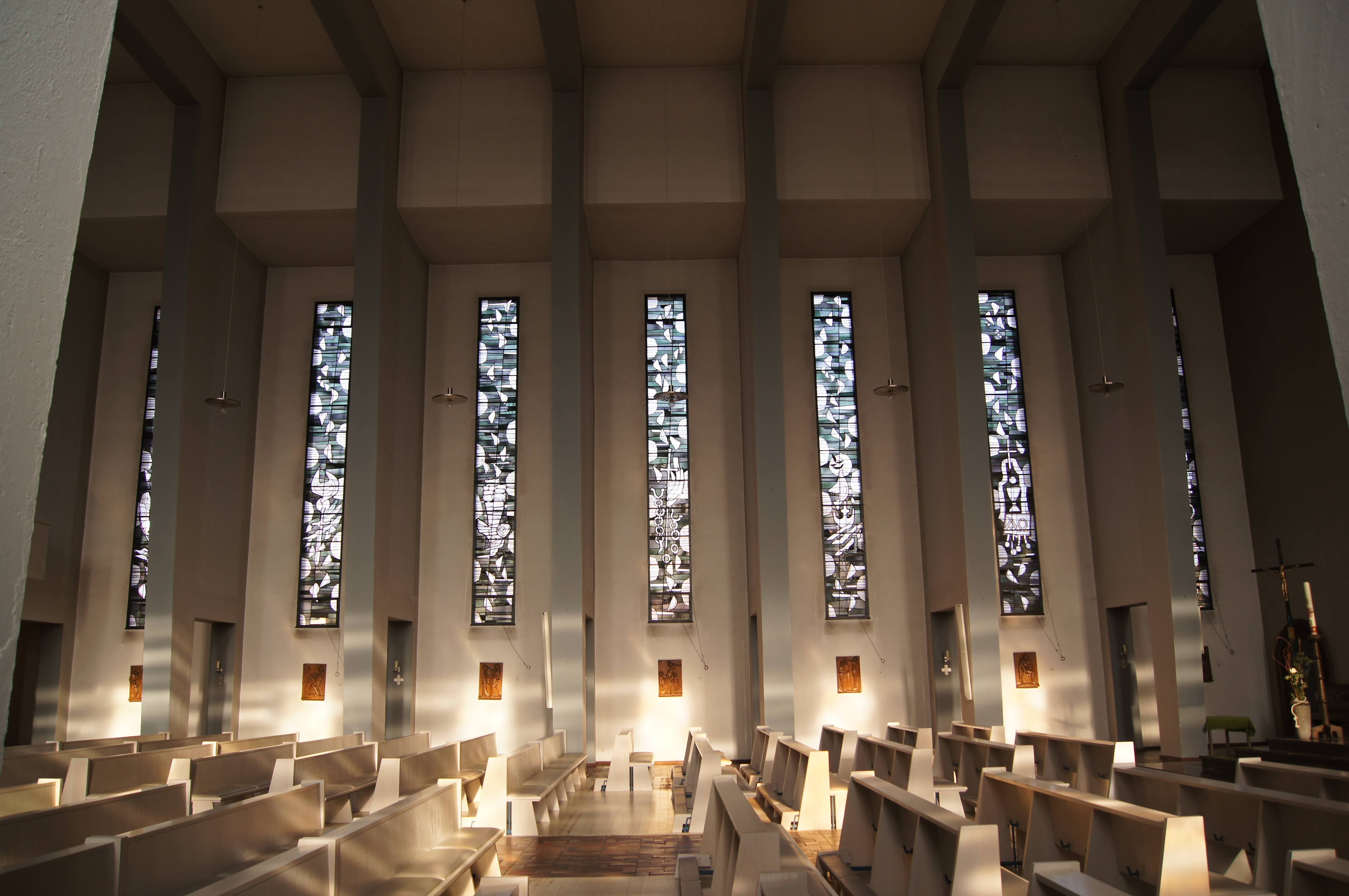 Inside the Heilig Geist Church in Münster, North Rhine-Westphalia, Germany. A loolk from south to north. Architect is Walter Kremer.